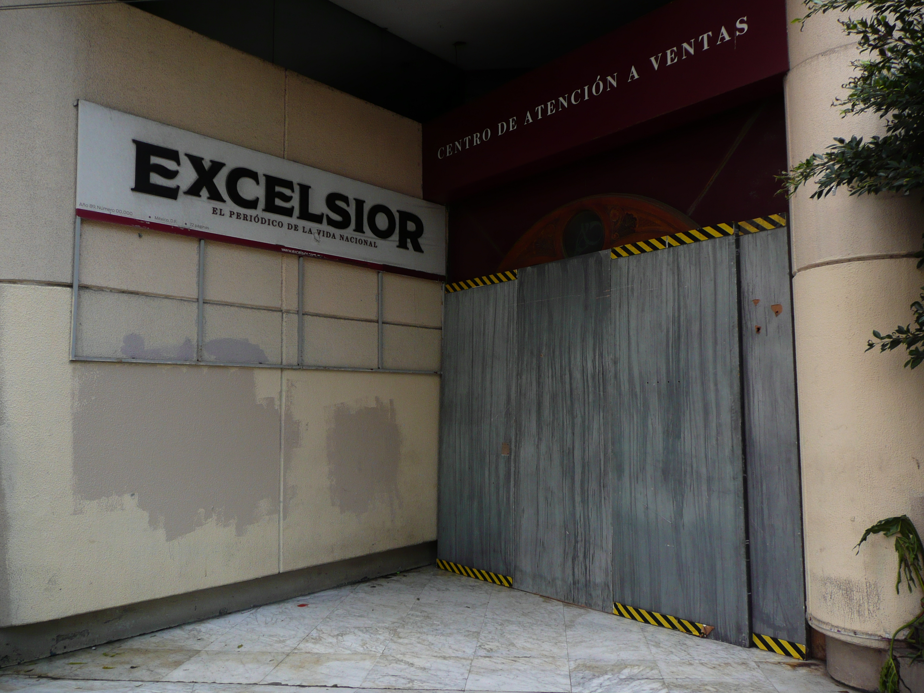 Headquarters of the Mexican newspaper Excélsior. Mexico City, Mexico.